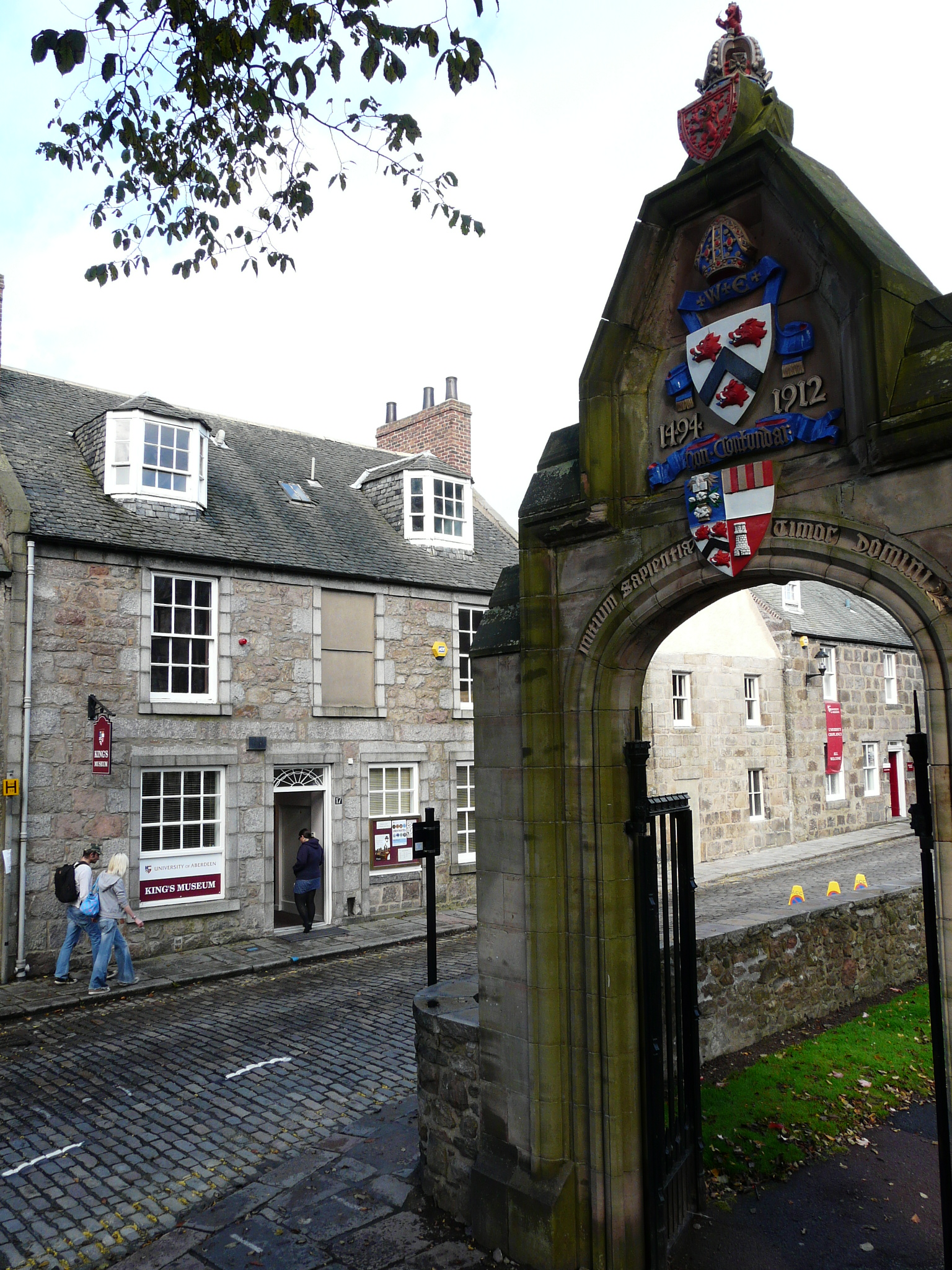 King's Museum viewed from the High Street in Old Aberdeen